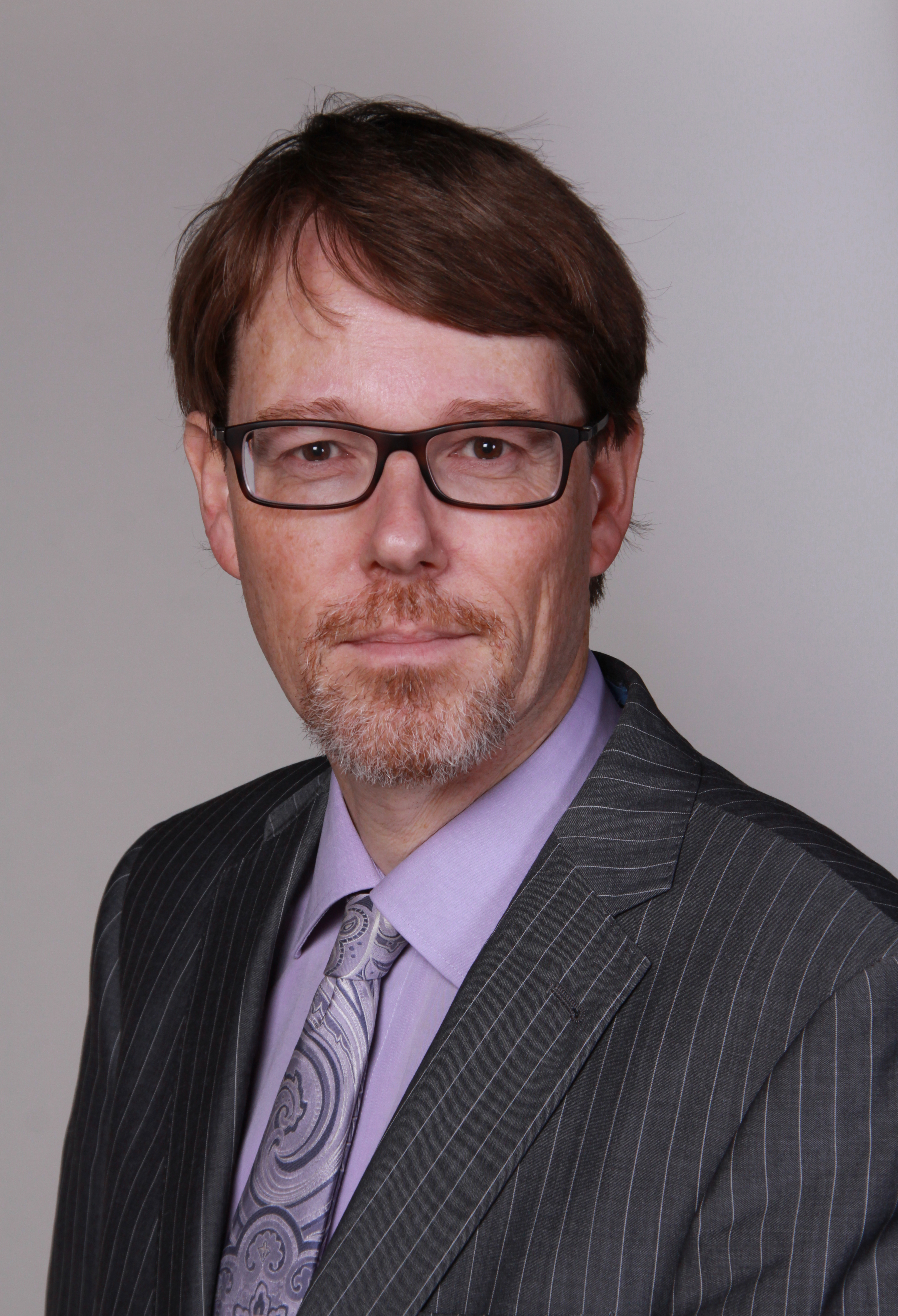 Lucas Hartong, Member of the European Parliament